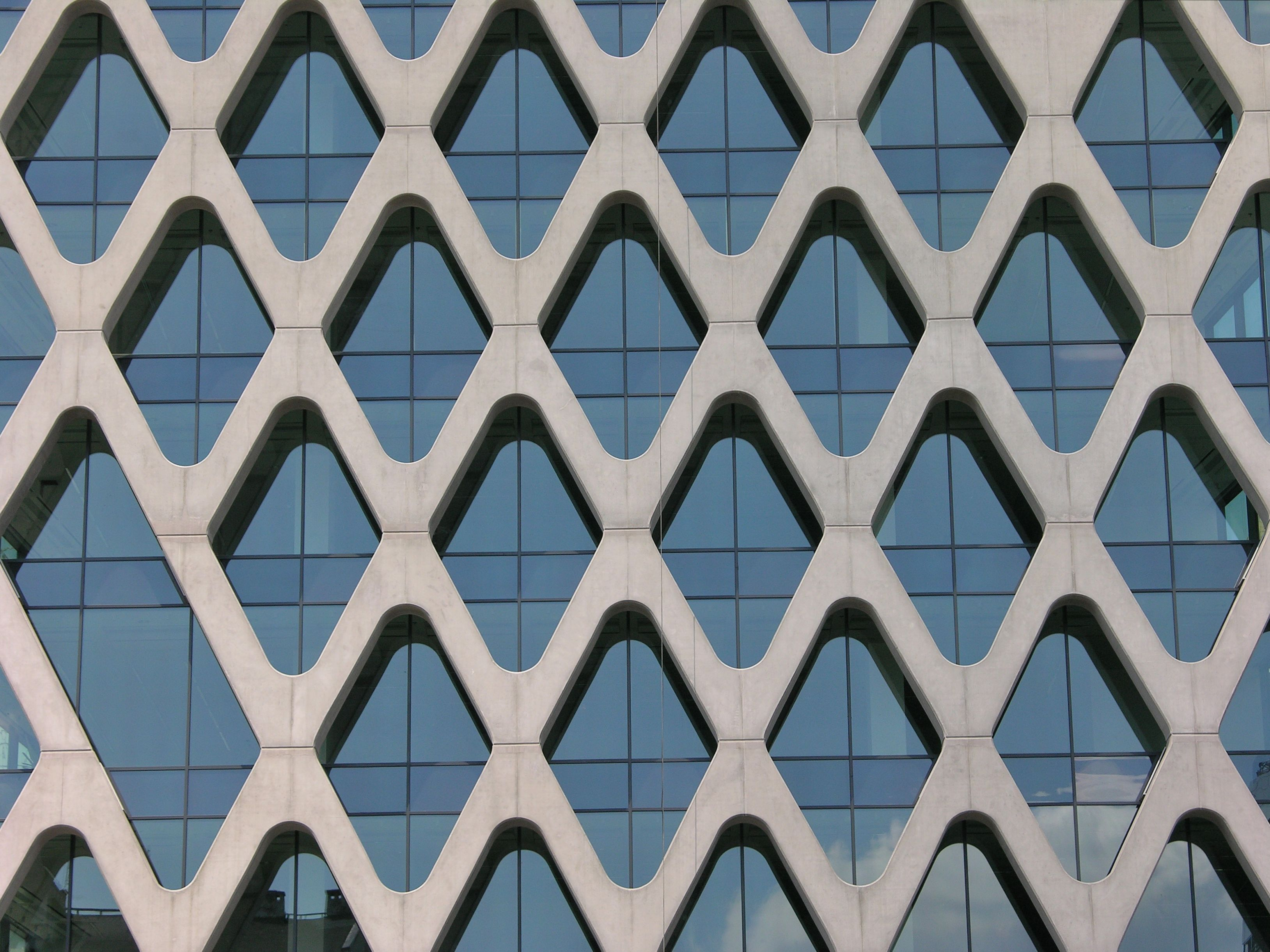 Facade of Prosta Tower offcie building in Warsaw